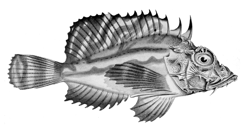 Minous versicolor